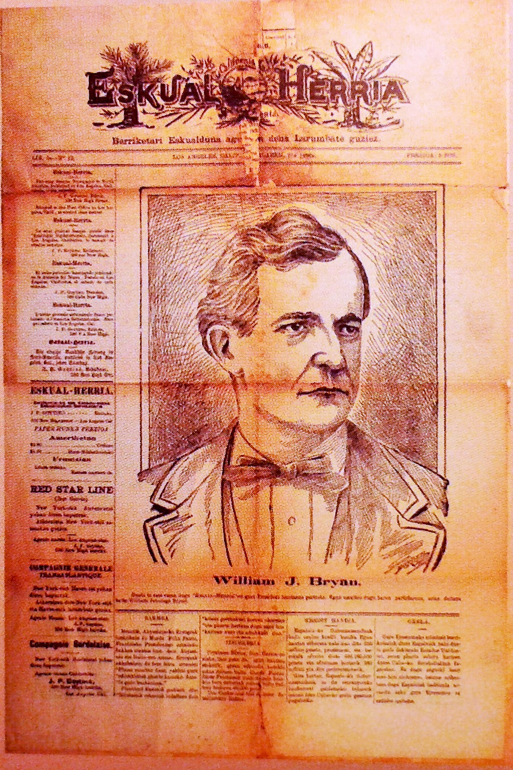 Wililam Jennings Bryan in the Basque-American weekly Eskual Herria, Los Angeles (1893-1897)